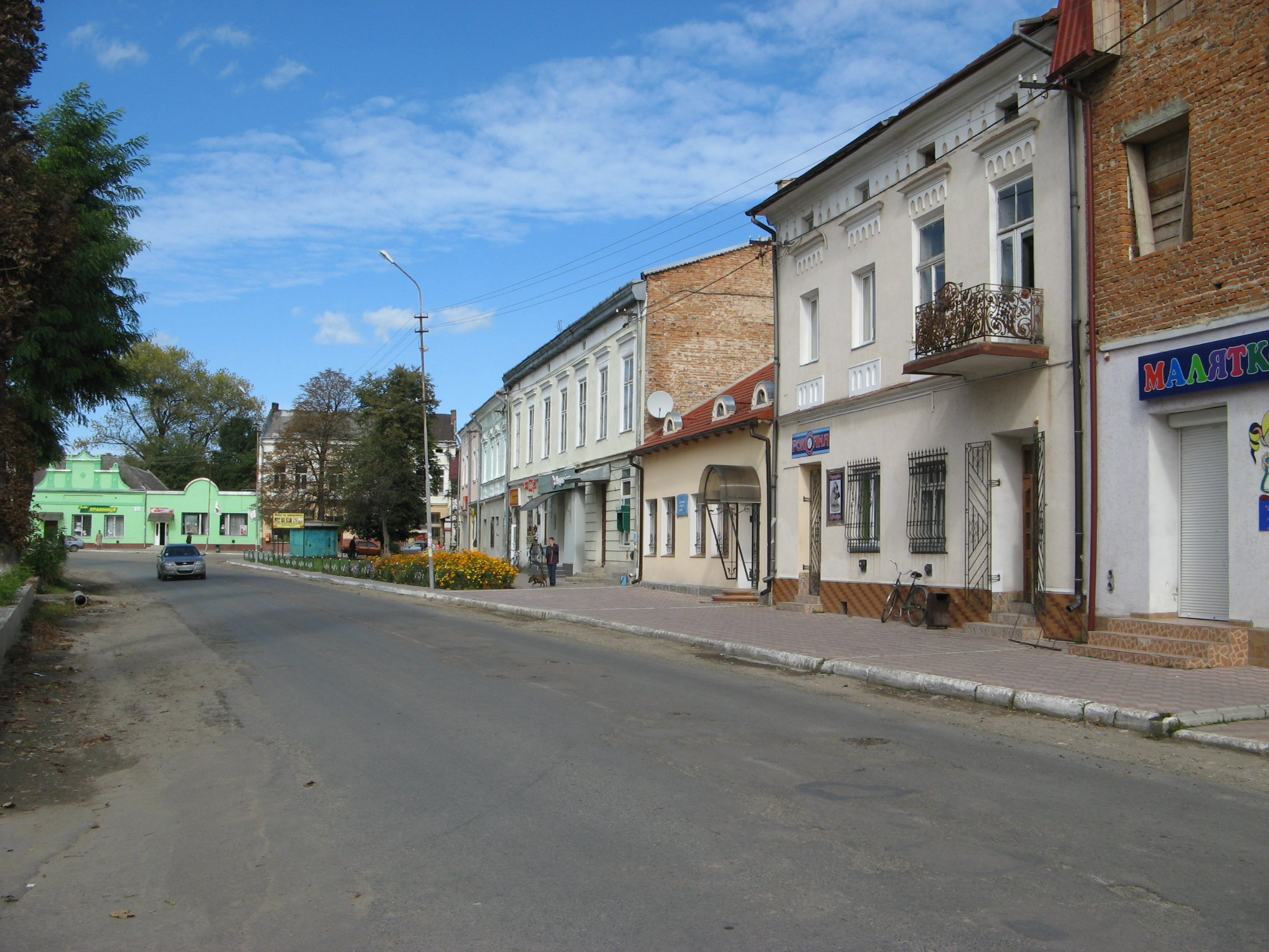 Dobromyl, Ukraine